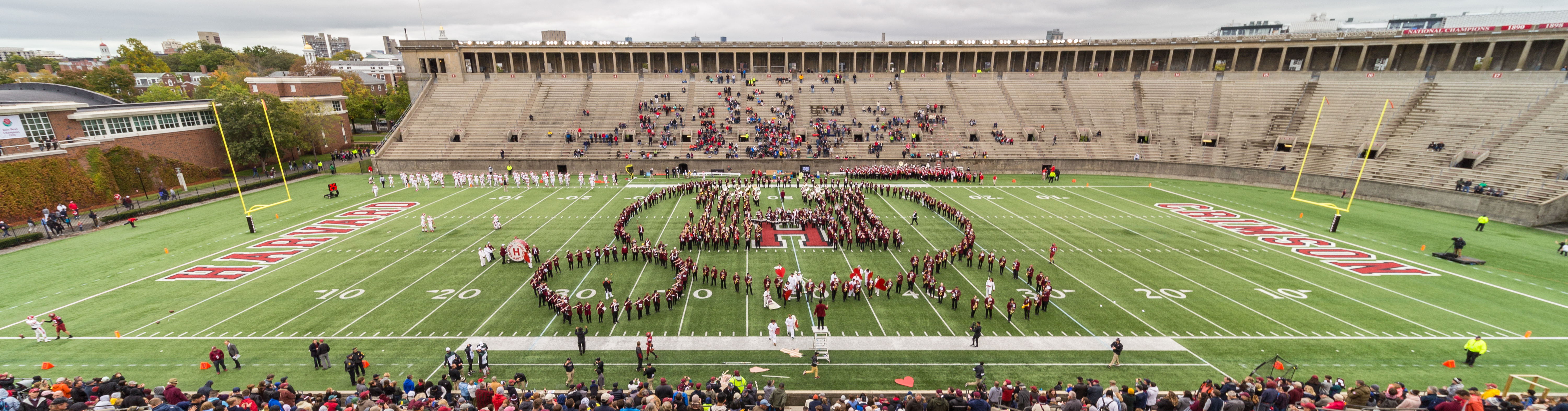 To mark the 100th anniversary of Harvard's marching band, hundreds of alumni joined the student members on the field during the Cornell game, October 12, 2019.